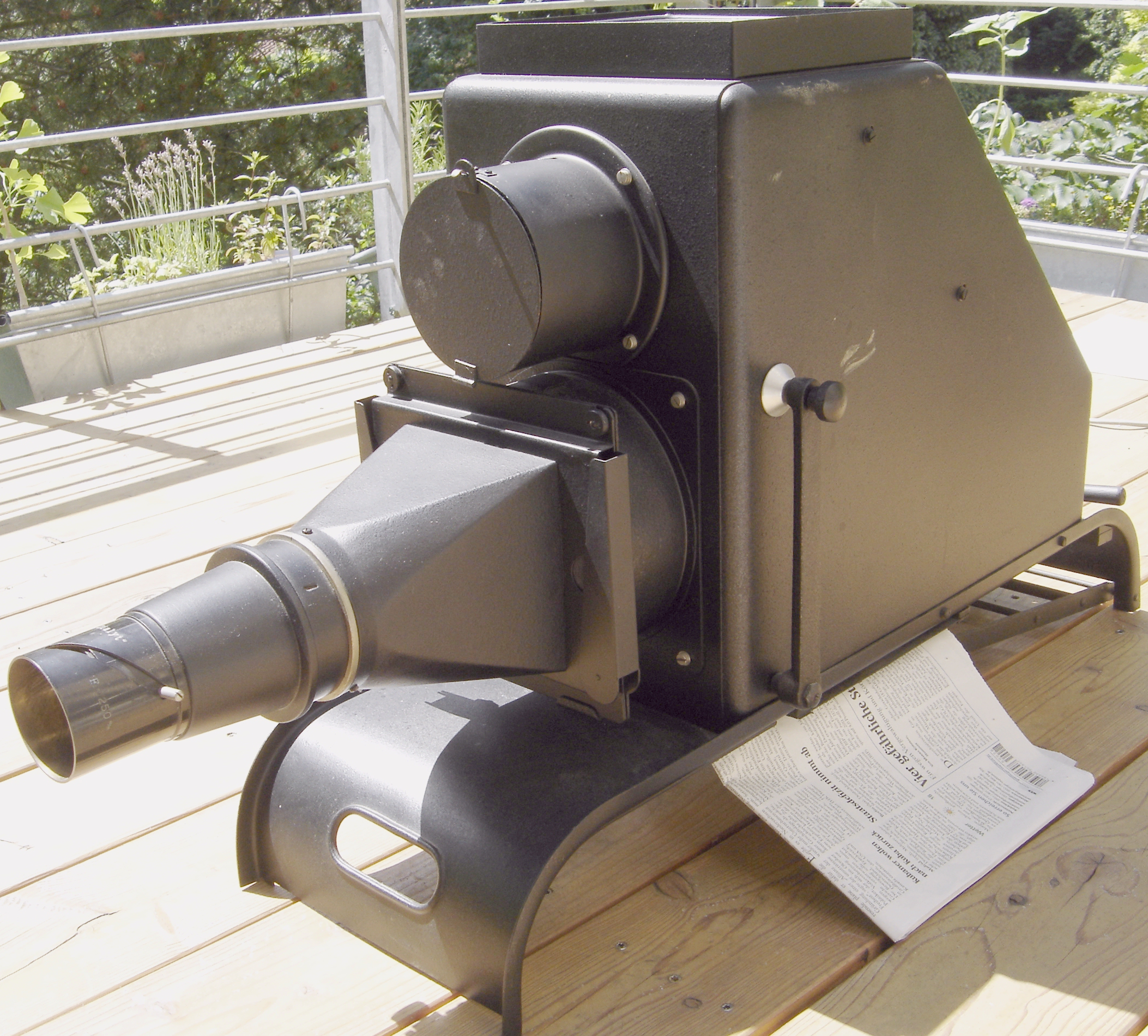 This is an epidiascope by German optics manufacturer Hensoldt, Wetzlar.